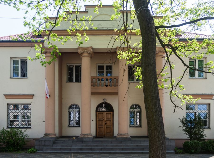 Presbytery of St. James church in Skierniewice, Poland.